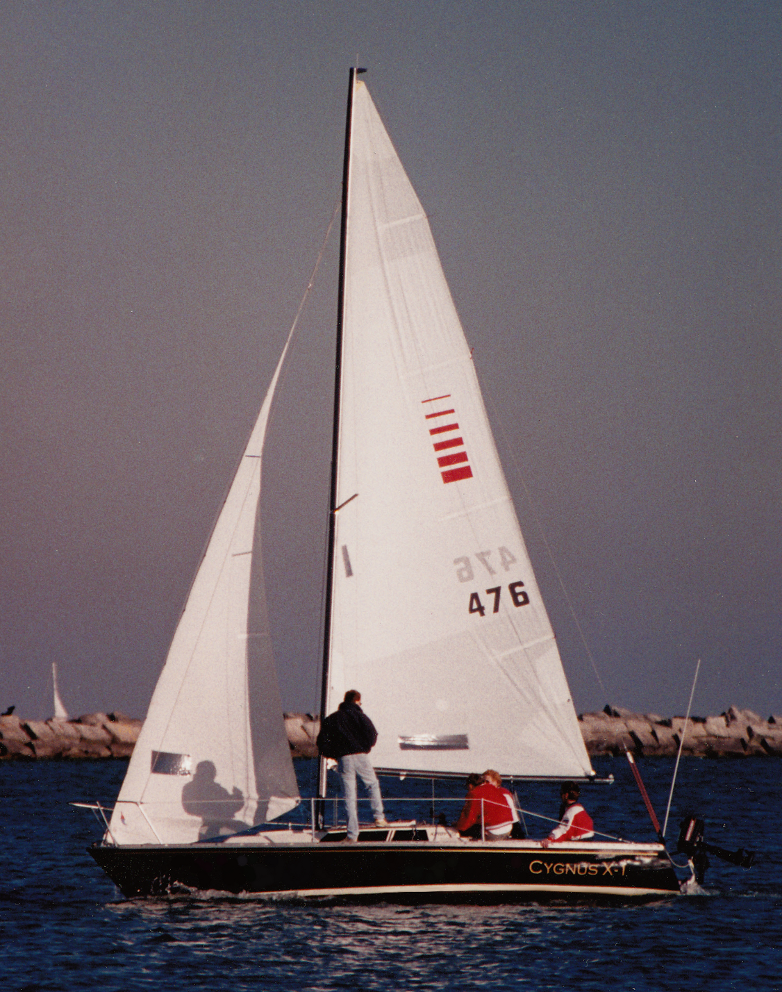 This is a picture of a Kirby 23 sailboat sailing on Lake Erie in the port of Ashtabula